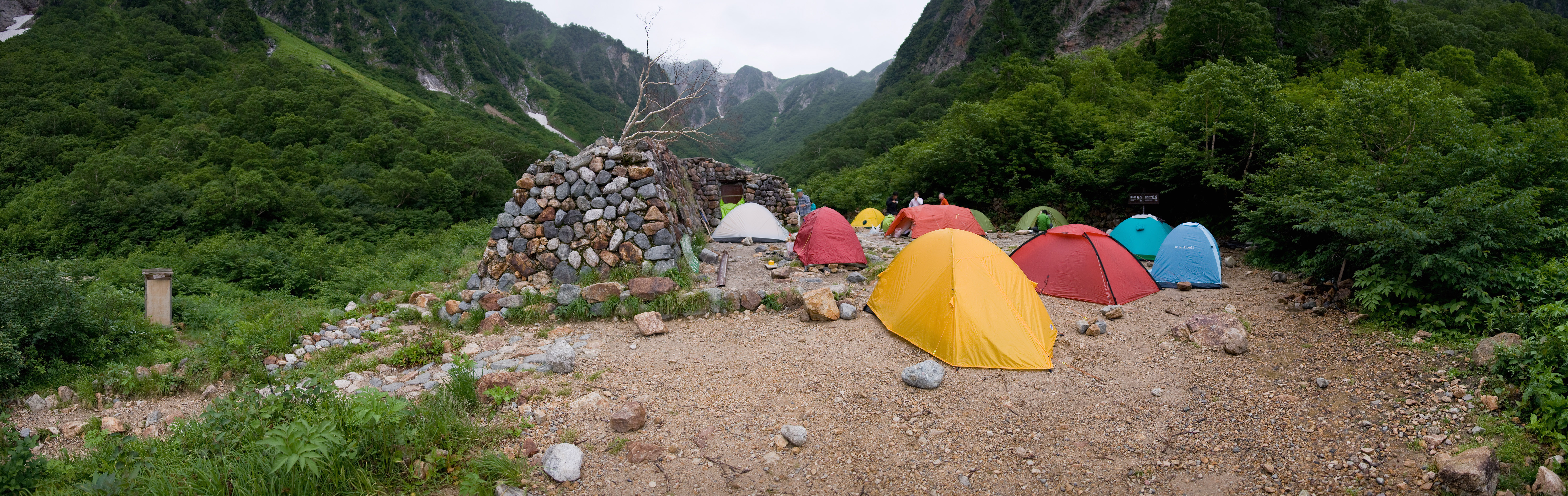 Yarisawa campsite, Hida Range, Nagano Pref., Japan.